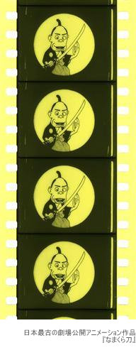 Toy filmstrip of Namakura Gatana (なまくら刀), originally Hanawa Hekonai meitō no maki (塙凹内名刀之巻, 1917), a lost film by Japanese animator Jun'ichi Kouchi.